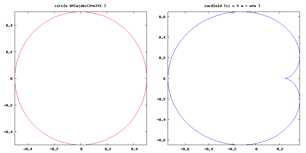 Conformal mapping from circle to cardioid